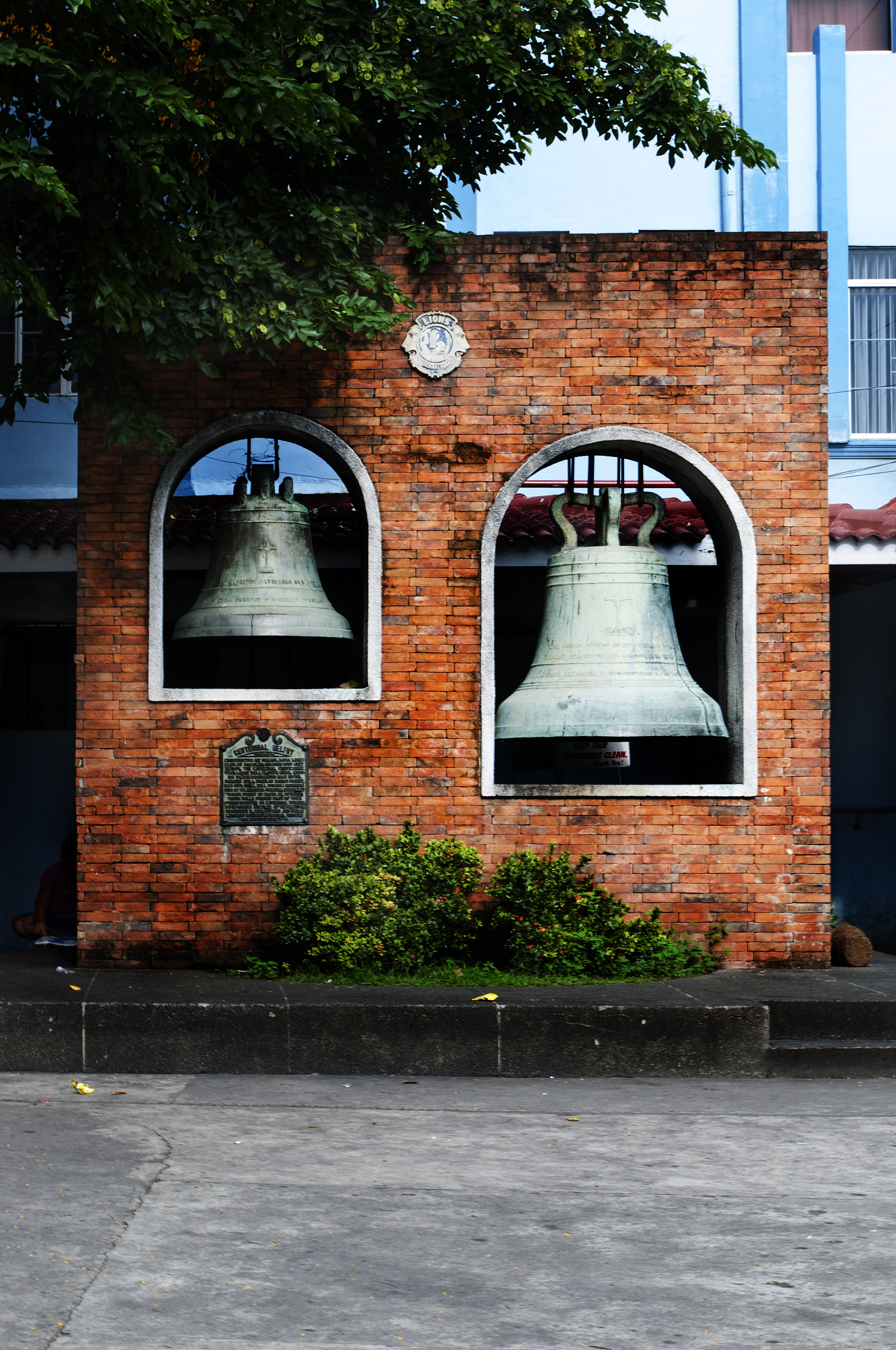 San Sebastian Cathedral (Bell) in Bacolod City, Negros Occidental